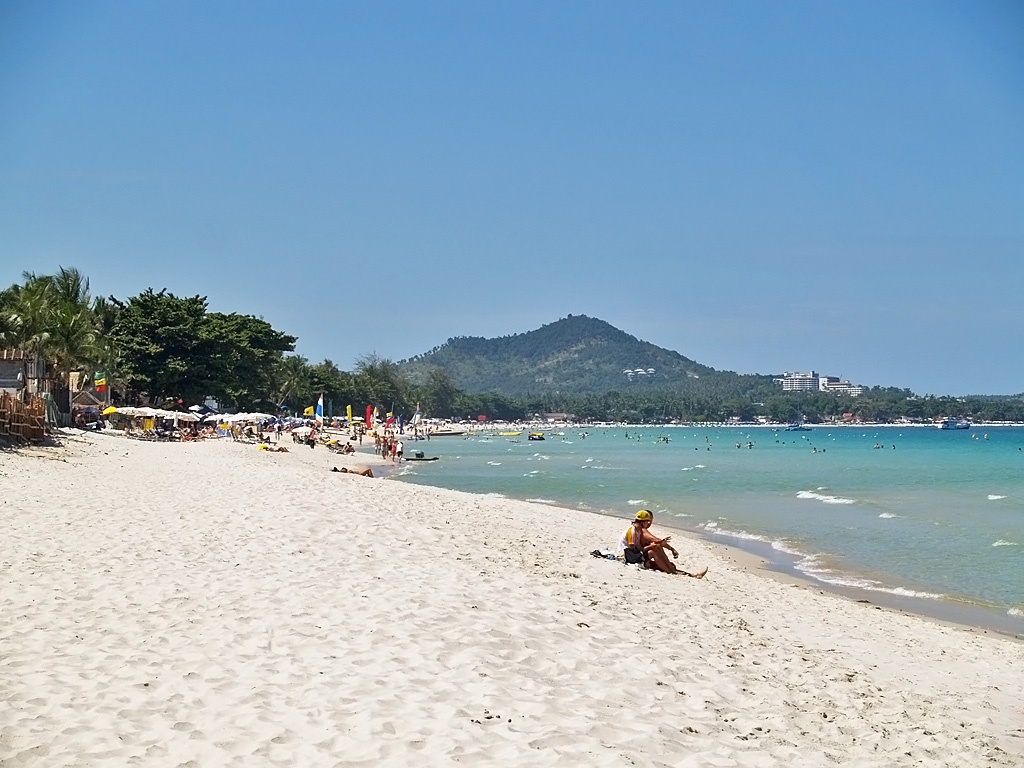 Chaweng Beach koh Samui